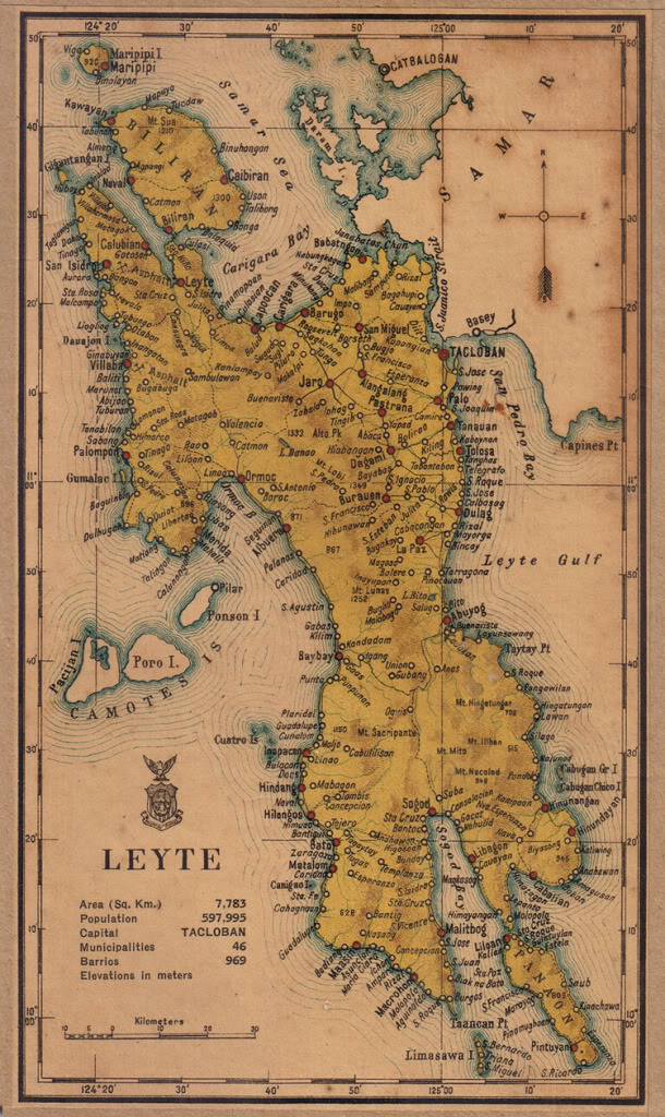 Map of Leyte Province, Philippines in 1918